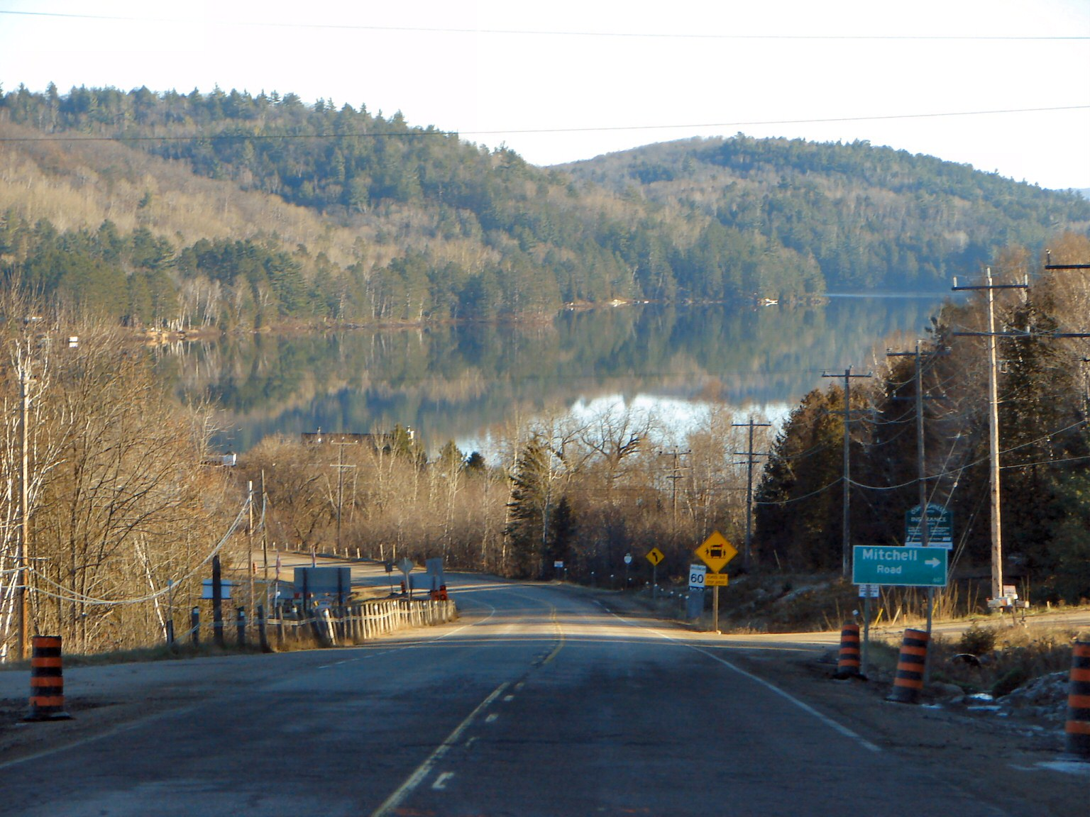 Highway 60 at Carson Lake, between Whitney and Barry's Bay, Ontario, Canada